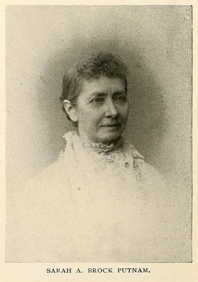 Portrait of American writer Sarah "Sallie" Ann Brock [Putnam] (March 18, 1831 – March 22, 1911). From American Women: Fifteen Hundred Biographies with Over 1,400 Portraits, Frances E. Willard and Mary A. Livermore, editors. Mast, Crowell & Kirkpatrick, 1897 (revised edition from 1893), p. 590